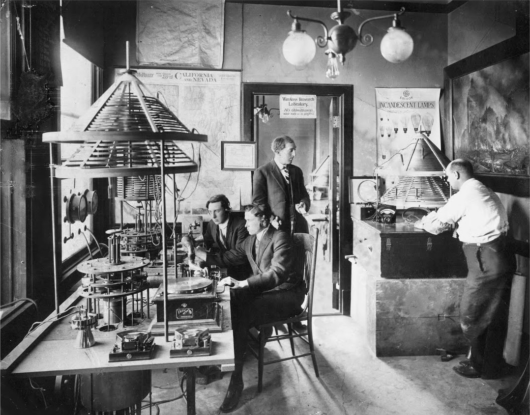 Photograph of Charles Herrold's San Jose California radio laboratory, circa 1912. Herrold is standing in the doorway. According to Thorn L. Mayes' "Wireless Communication in the United States" (page 204), the individuals pictured are, left-to-right: Kenneth Saunders, E. A. Portal, Herrold and Frank Schmidt.